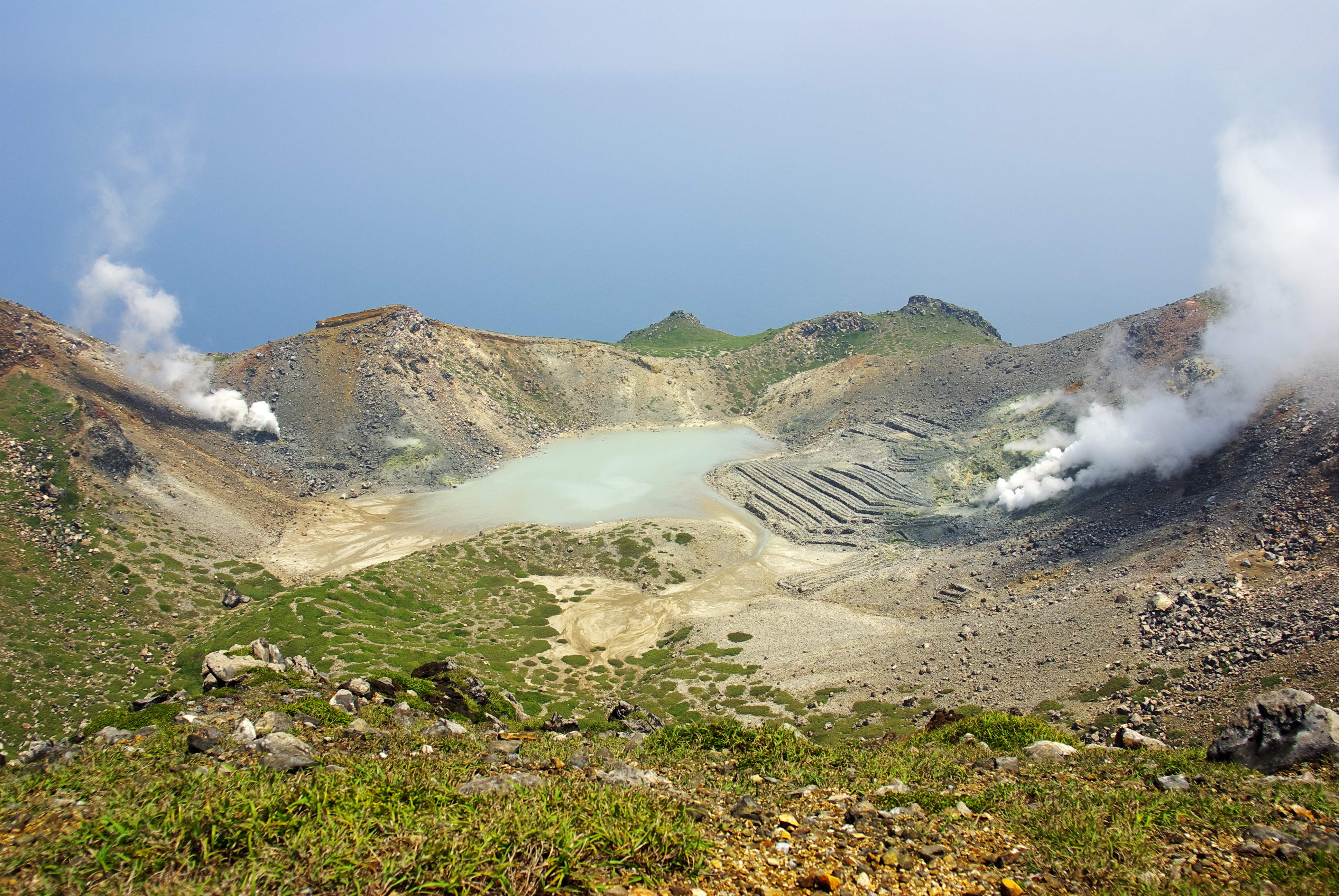 The crater on the highest peak (Otake) in Nakano-shima. The stripes that can be seen at the right in this photograph are disused sulfur mining facilities.